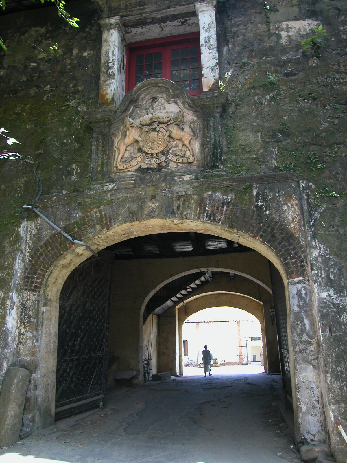 Old Town of Galle and its Fortifications